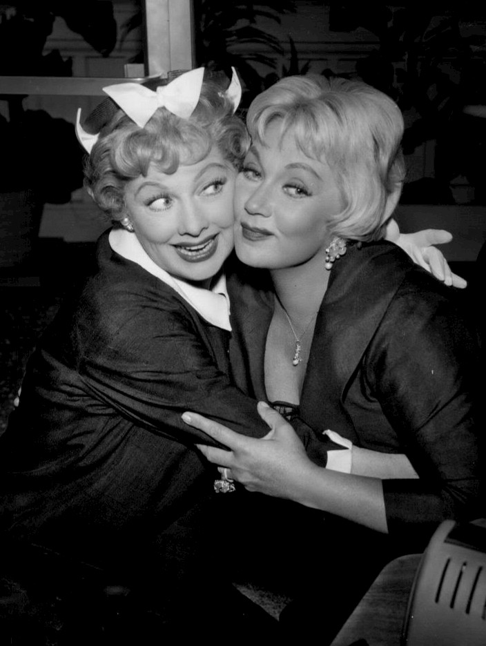 Photo of Ann Sothern and guest star Lucille Ball from the television program The Ann Sothern Show.